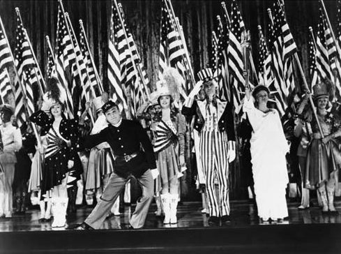 Publicity photo for the 1942 film Yankee Doodle Dandy